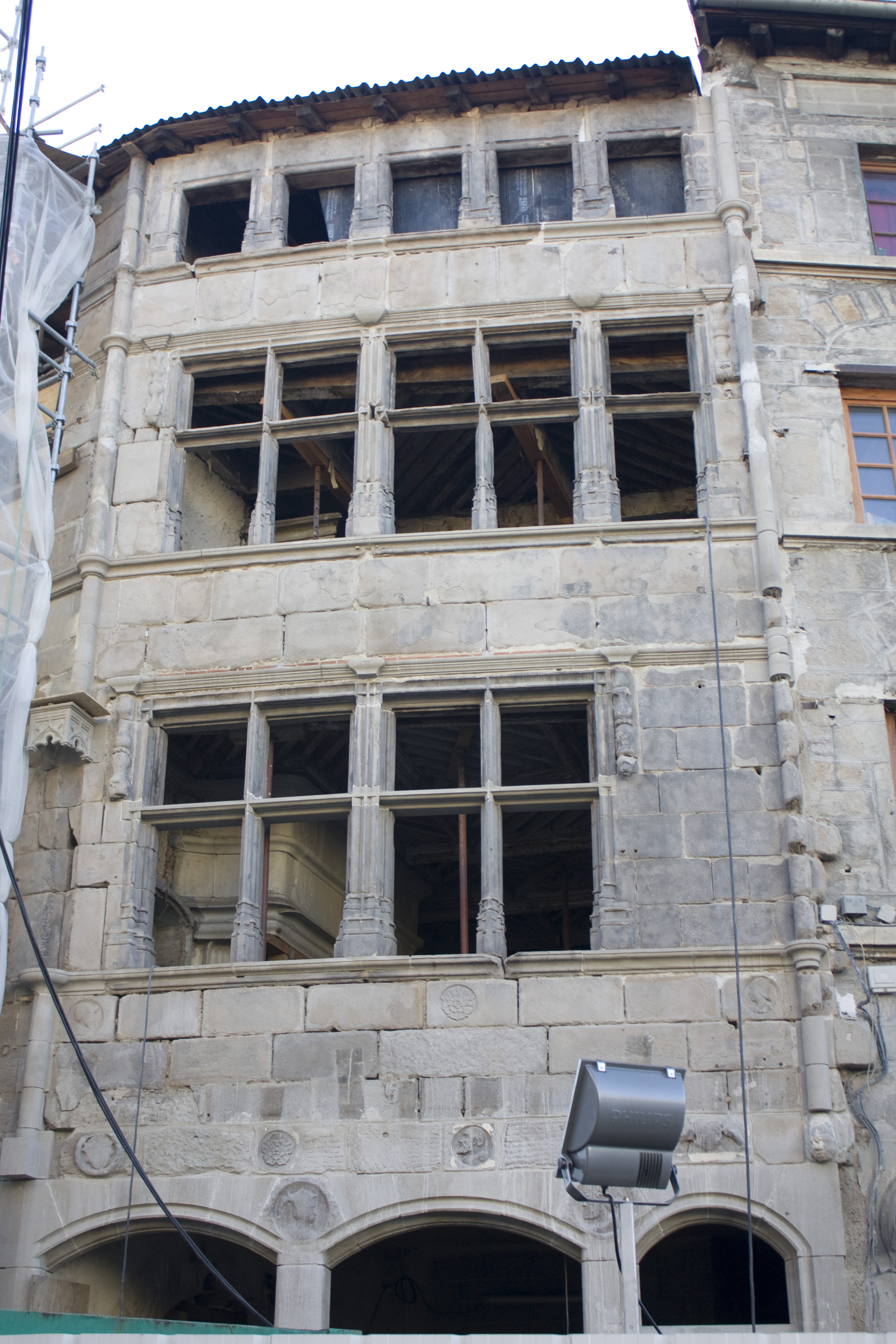 The house Francis the First, is going to be restored. We distinguish the original structure of nested coffered ceilings and the monumental fireplace.